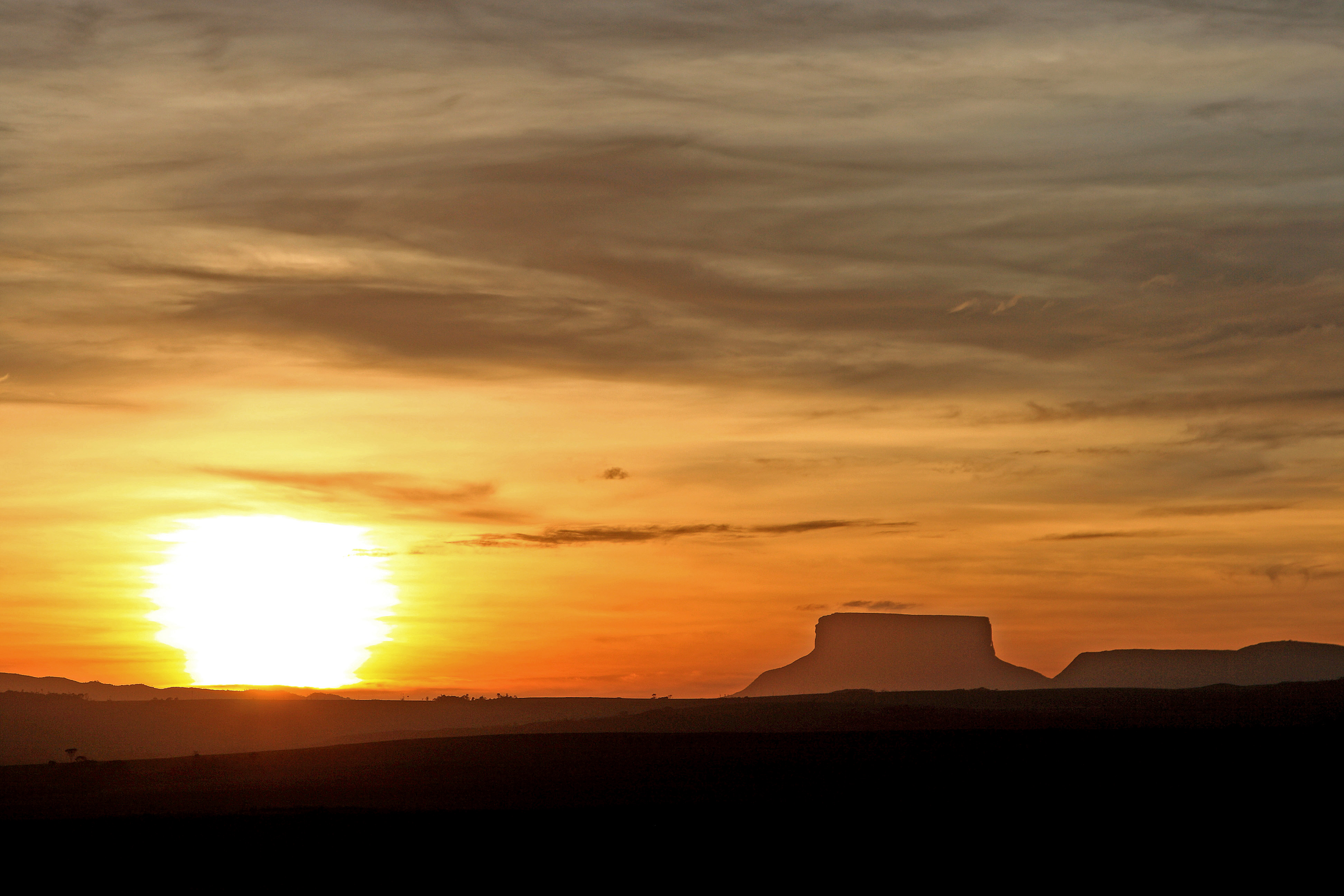 Tepui in Gran Sabana